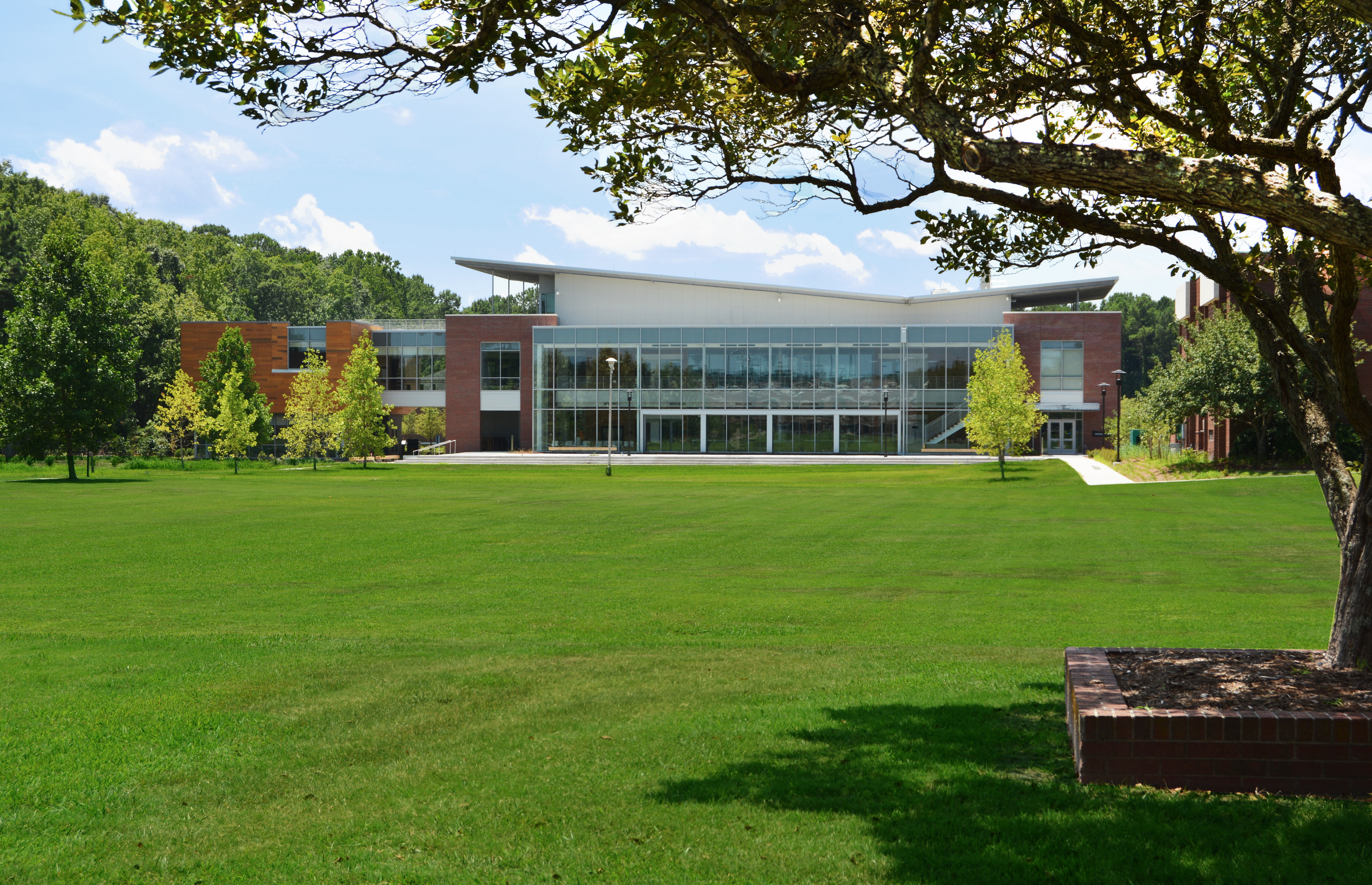 The Greer Environmental Sciences Center at Virginia Wesleyan University